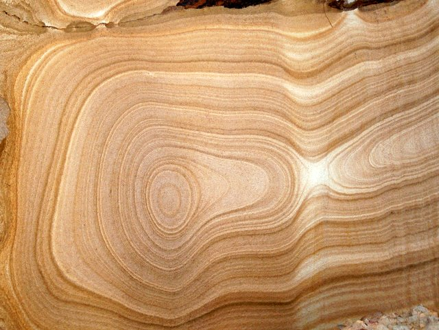 Sandstone at Flint & Steel beach, Hawkesbury River, Australia